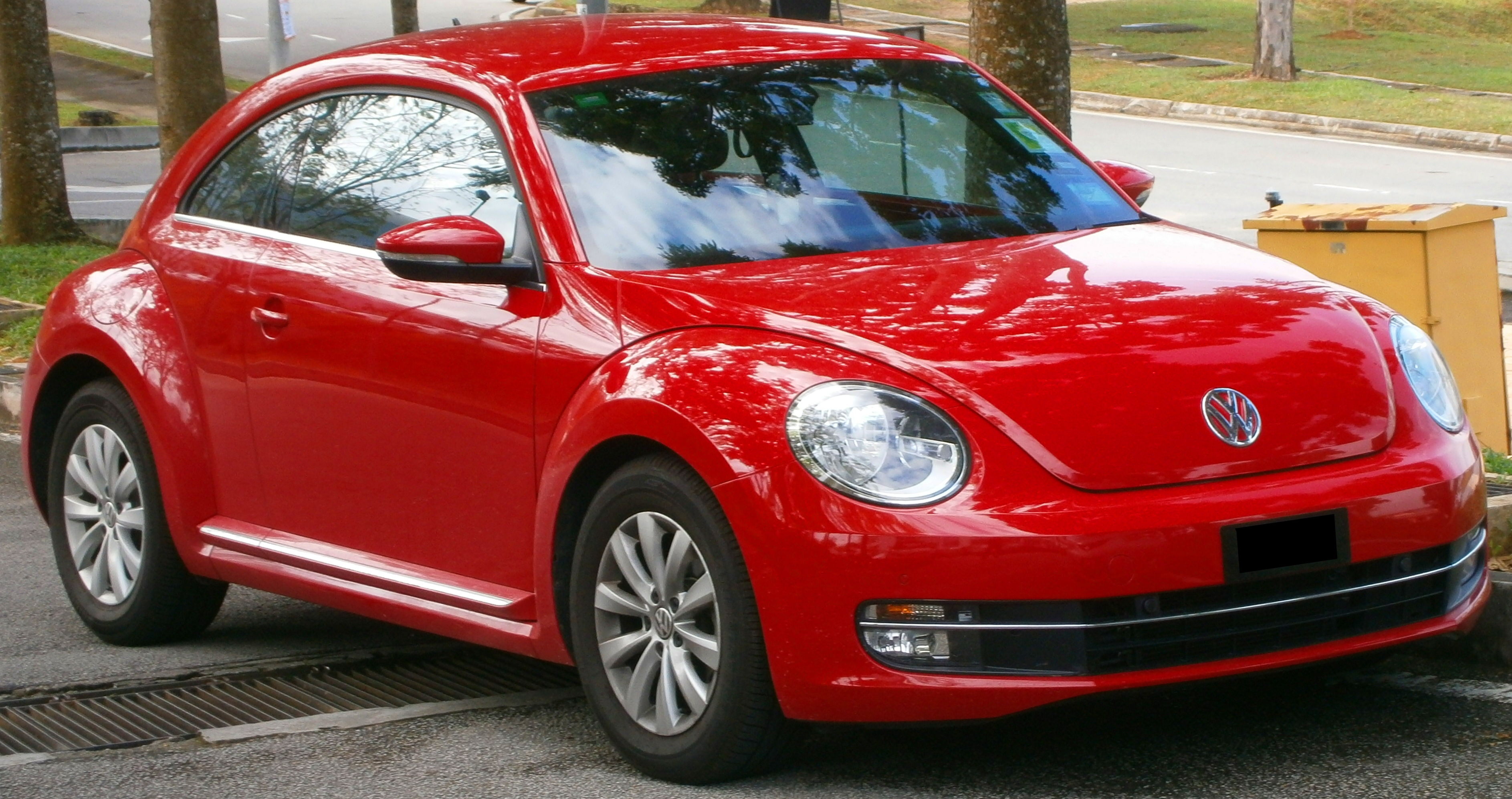 2012 Volkswagen Beetle 1.2 TSI in Cyberjaya, Malaysia.Colour : Tornado RedDesigned in Germany , Manufactured in Mexico